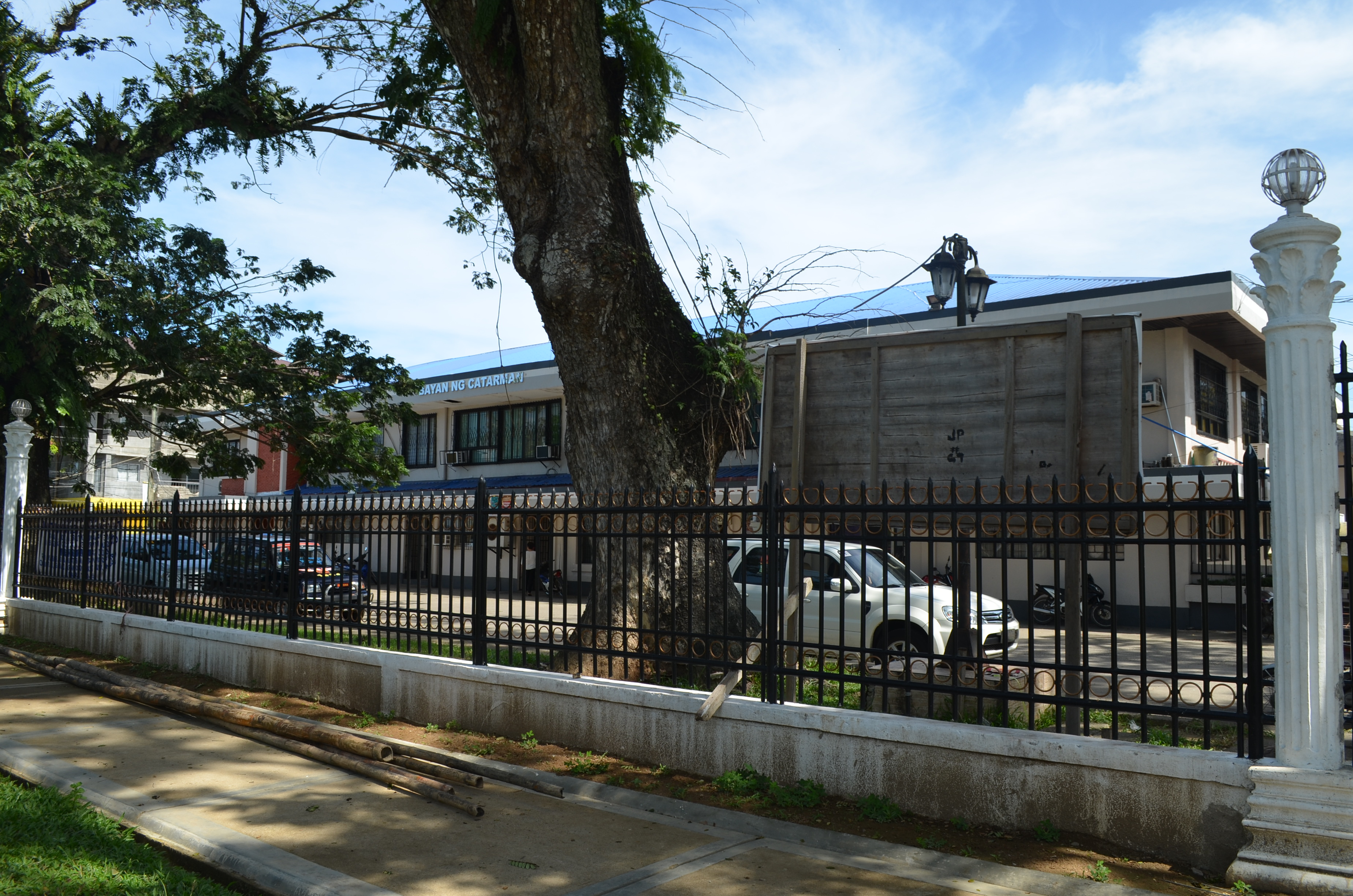 Taken during the December 2015 Sinirangan Bisaya Wikimedia Community activities in Eastern Visayas